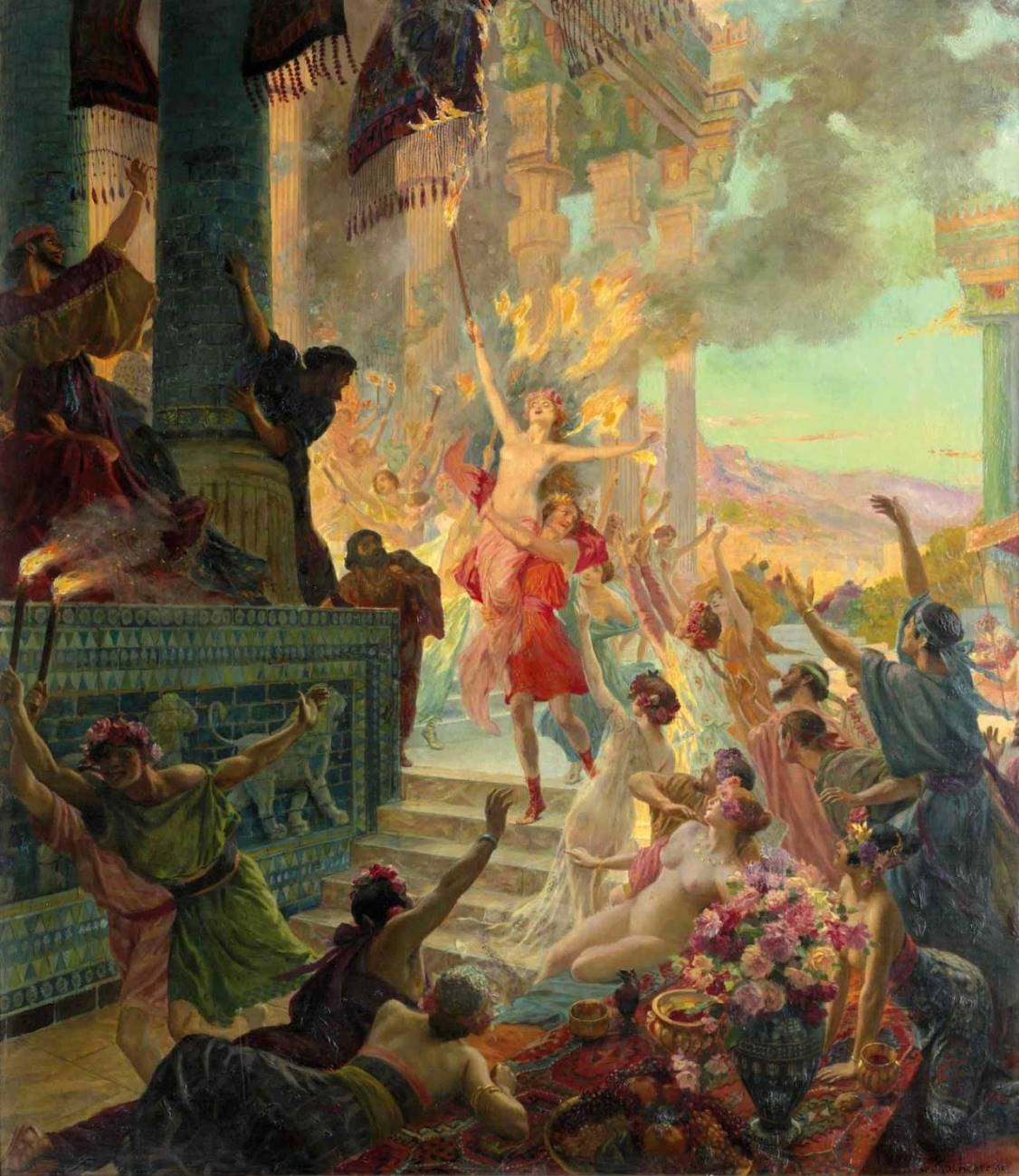 Georges-Antoine Rochegrosse Incendie de Persepolis 1890